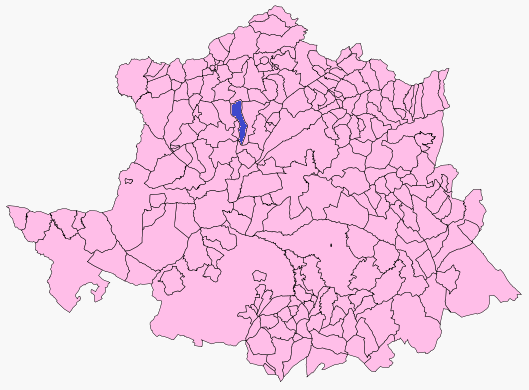 Guijo de Galisteo